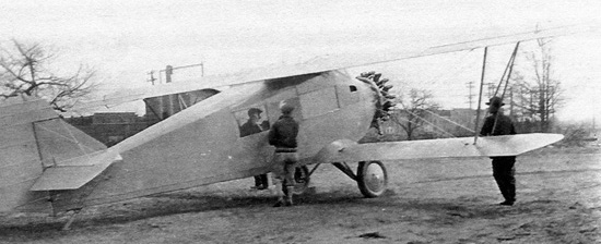 Catalog #: 00062648 Manufacturer: Buhl Designation: CA-5 Official Nickname: Airsedan Notes: Repository: San Diego Air and Space Museum Archive